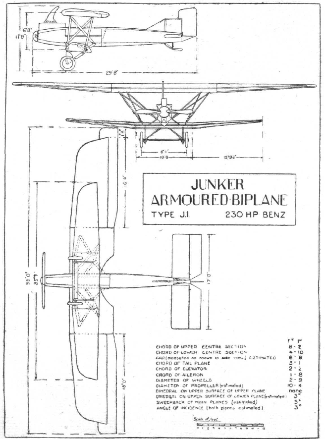 Junkers J.I Aircraft